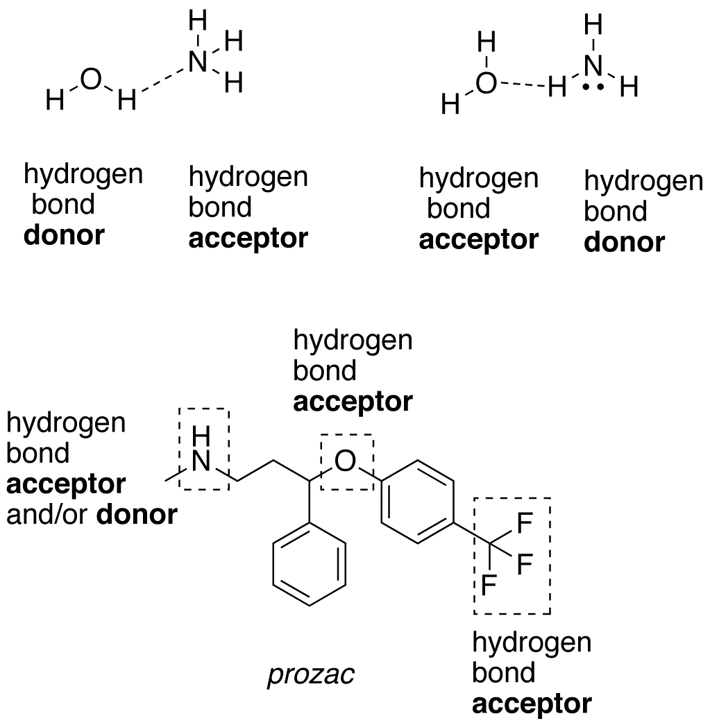 Illustration of hydrogen bond donors and acceptors both as groups (in prozac) and molecules (ammonia and water)